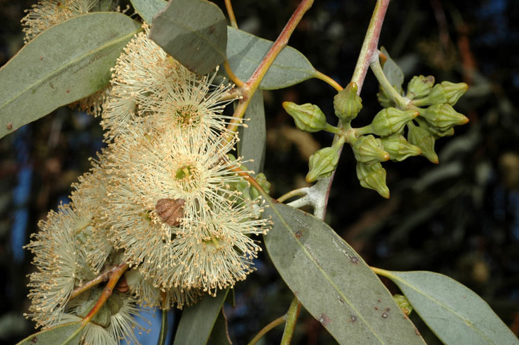 Flower buds and flowers of Eucalyptus lesouefii in the Harry McCormick Arboretum, Mathoura, New South Wales